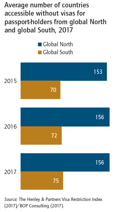 Average number of countries accessible without visas passport-holders Global North and Global South, 2017. Source: The Henley & Partners Visa Restriction Index (2017)/BOP Consulting (2017).